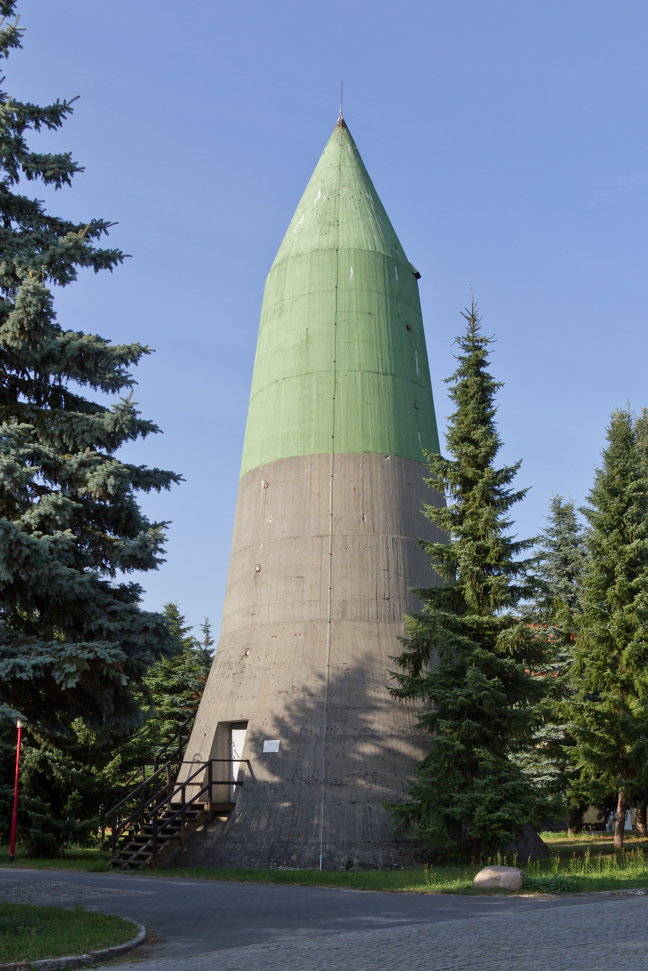 Former Soviet bunker in Bücherstadt Wünsdorf, Brandenburg, Germany